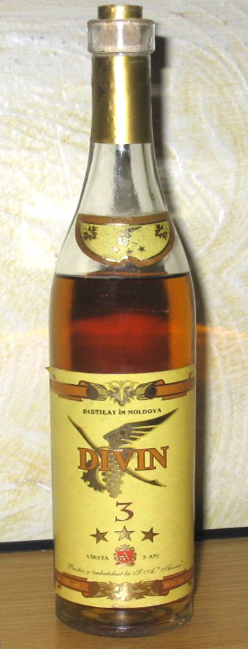 Divin is brandy of Moldova